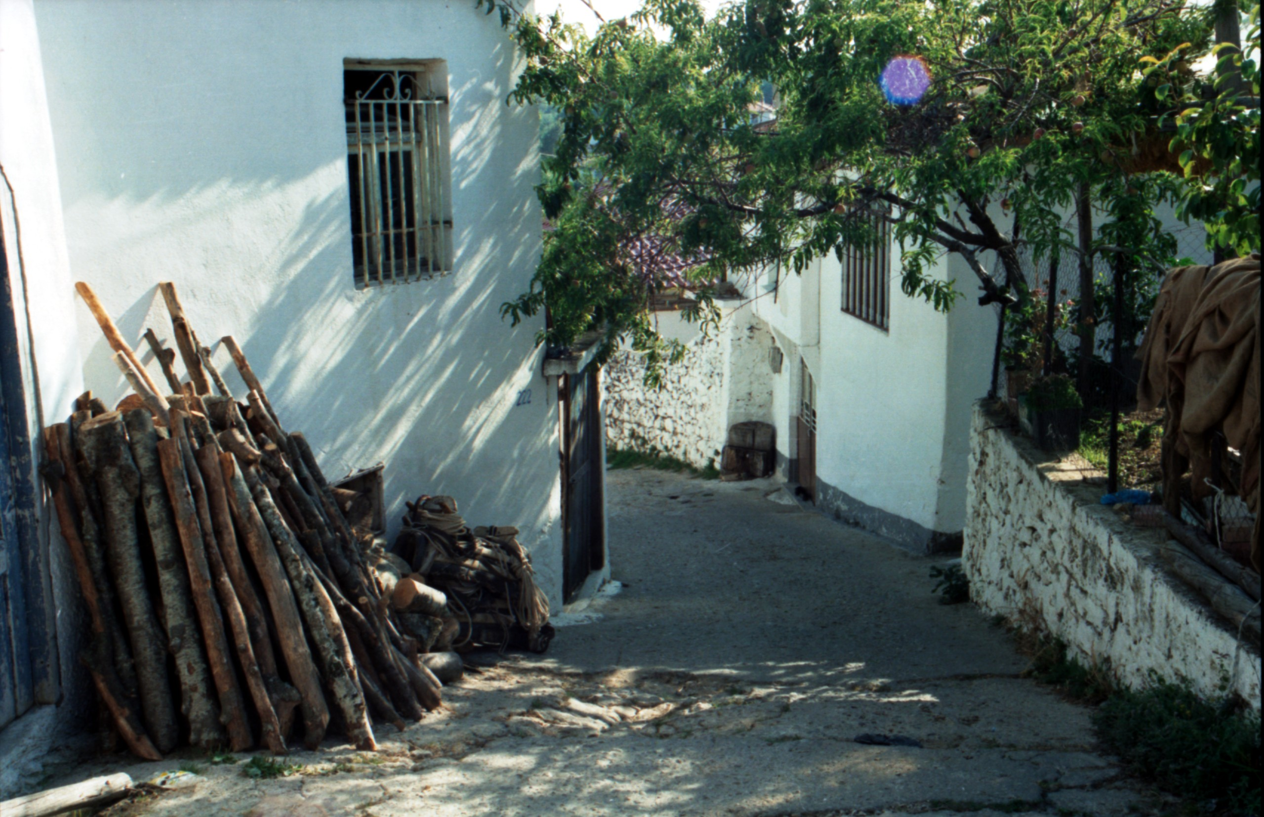 Pomak village in Xanthi, Thrace, Greece.